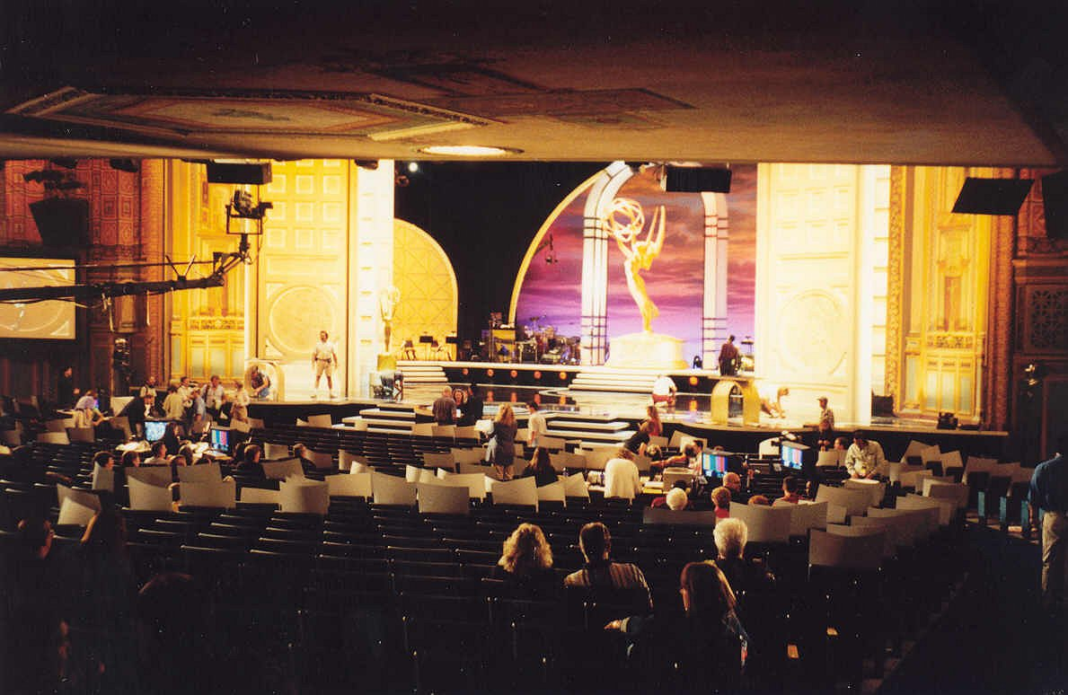 At the Emmy rehearsal, 9/13/97